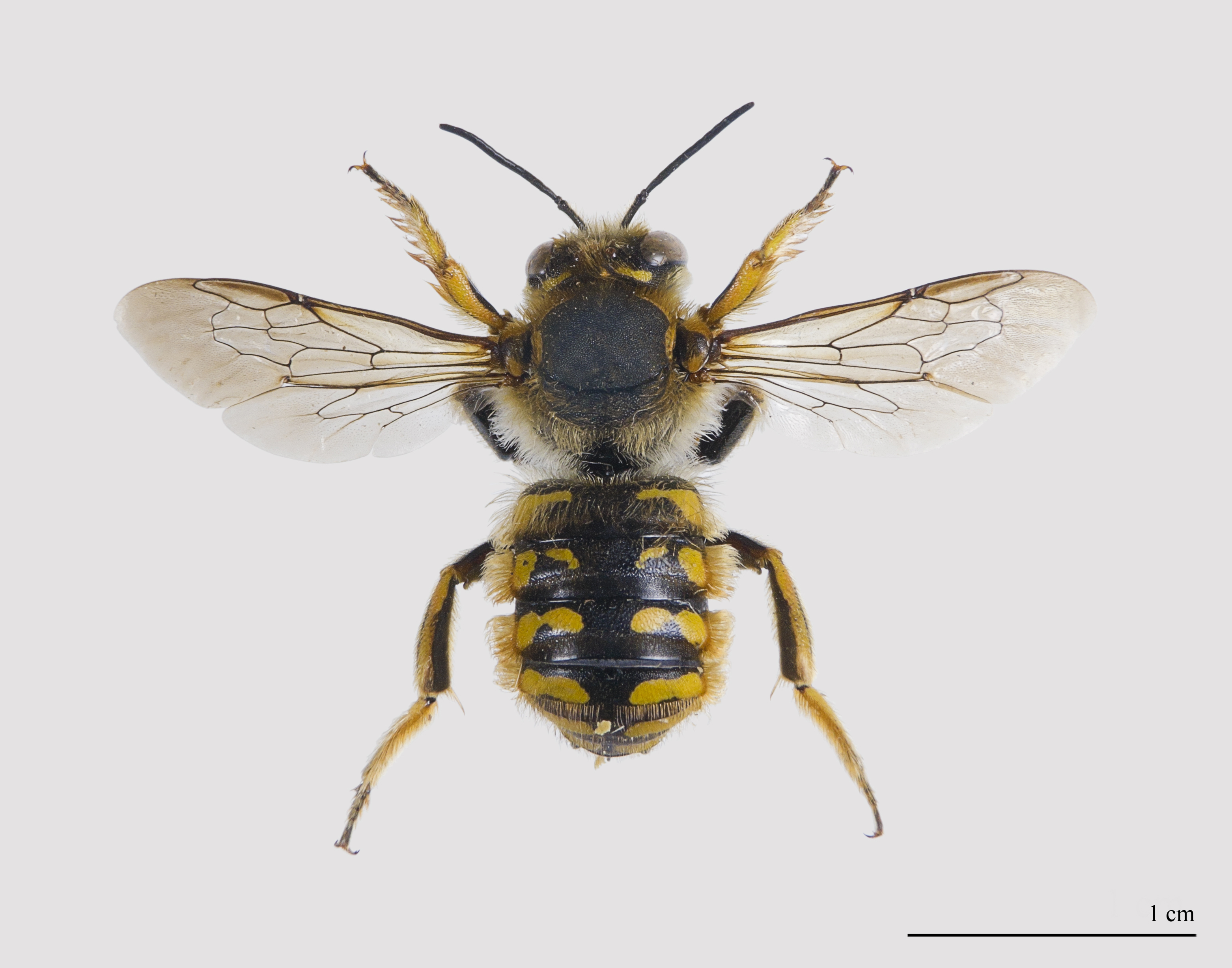 Male - Dorsal side Locality: Maourine pond, Toulouse, France.